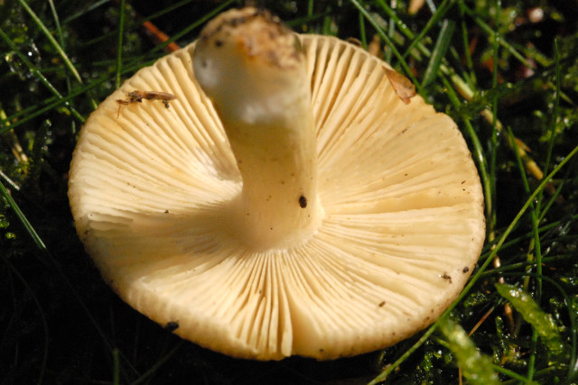 Russula puellaris from Commanster, Belgium. The determination of the species shown in this picture has been verified.